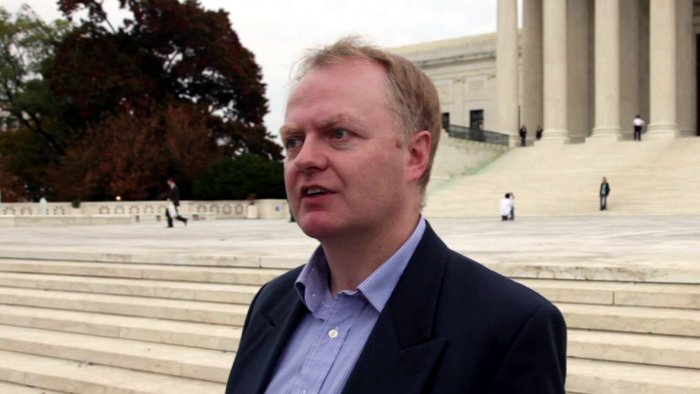 Image from the documentary film "Patent Absurdity"